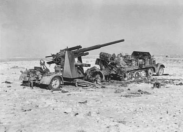 A burnt out German 88 mm FlaK 36 gun and its SdKfz 8 half track near El Alamein, Egypt.